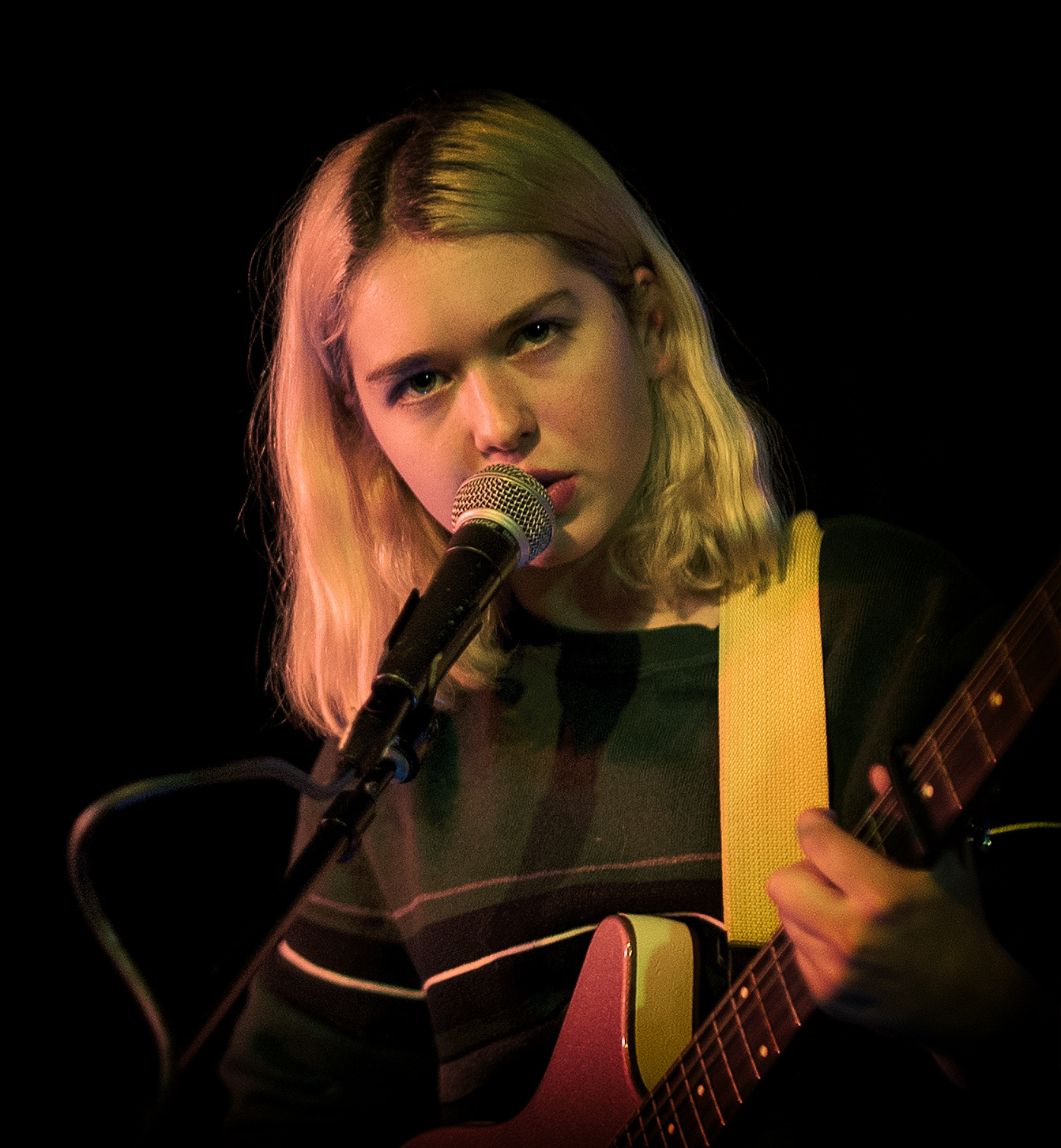 Lindsey from Baltimore band Snail Mail leading a great set at Black Cat, Washington, DC.